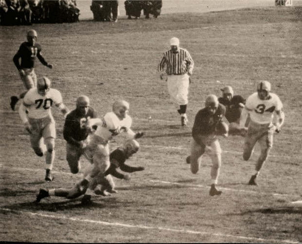 A Navy player makes a run down the field in the 1954 Army-Navy Game. Navy won, 27-20